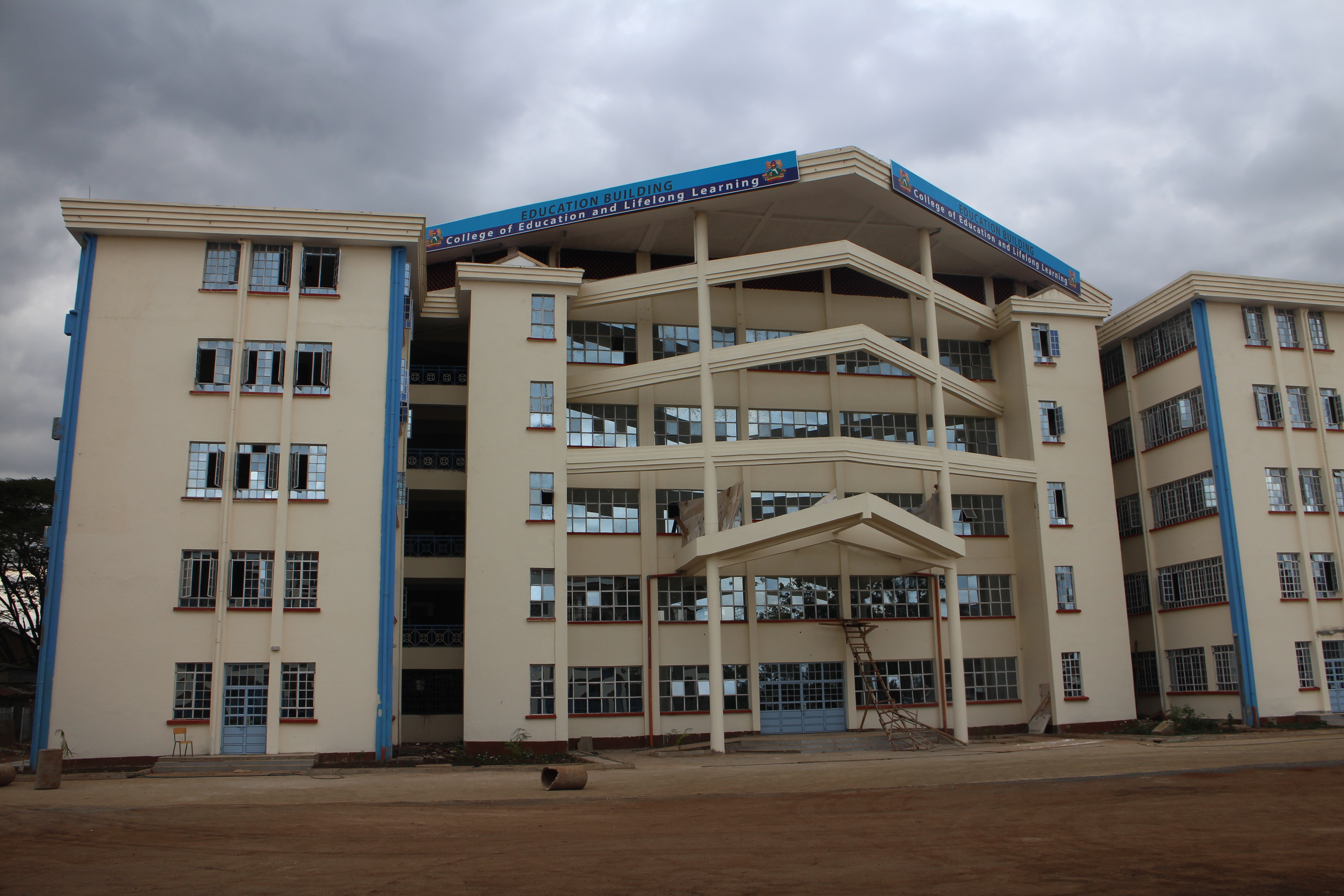 Kenyatta University, the Education Building, Nairobi 2016